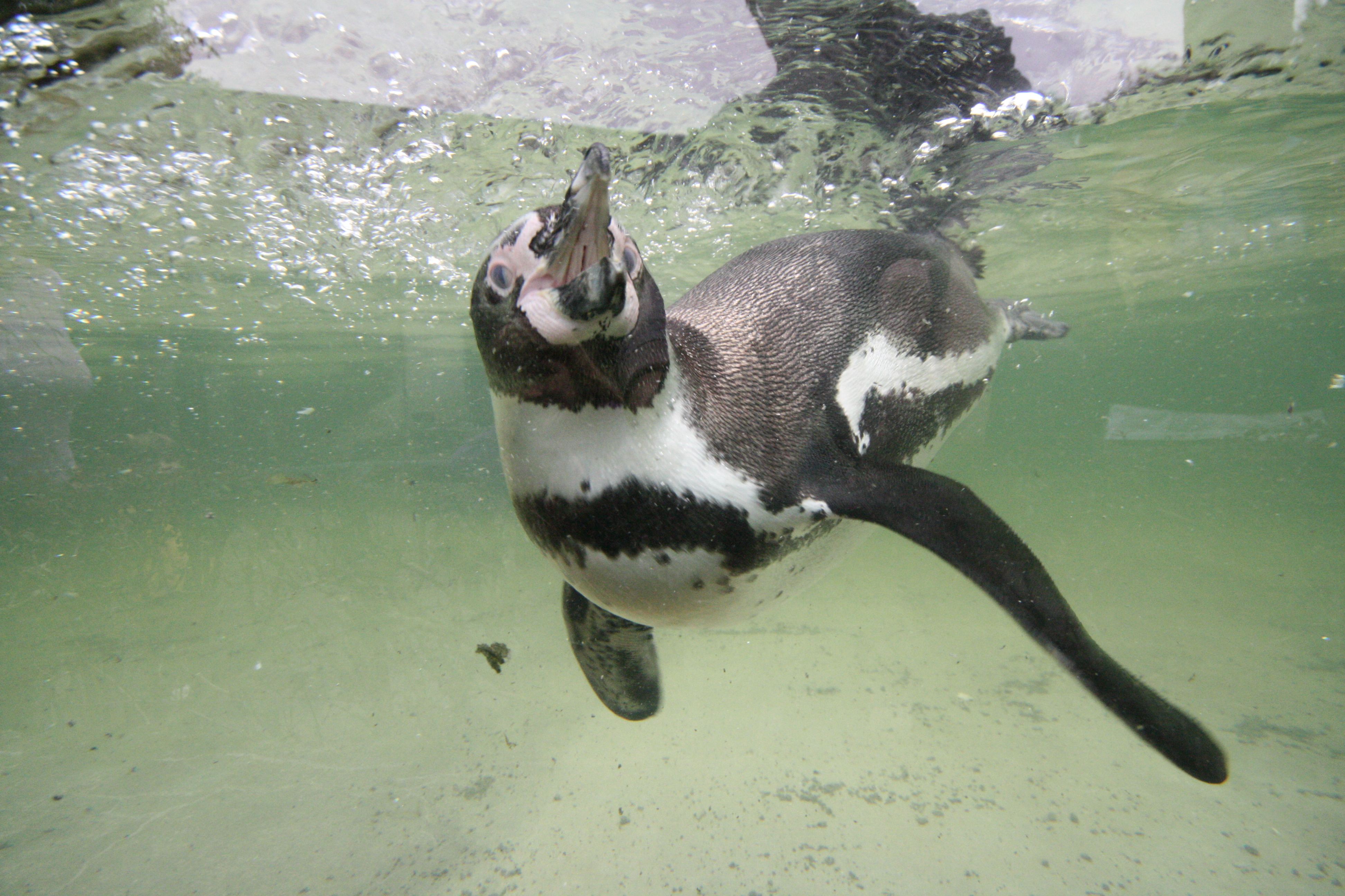 Spheniscus humboldti in water in liberec zoo.